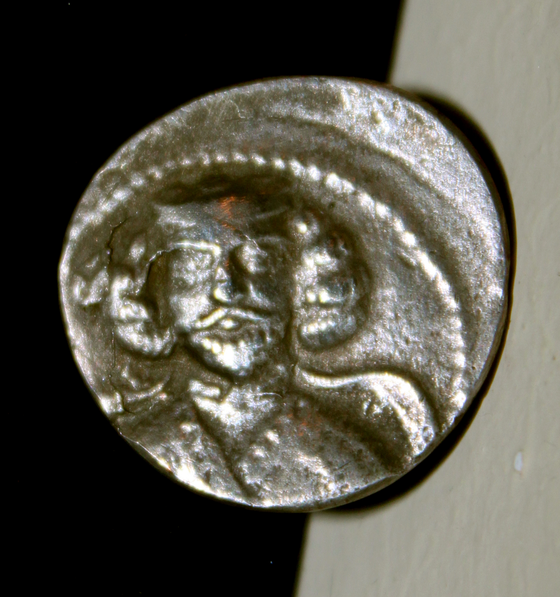 Sliver drachma of Darius I of Media Atropatene, founded from Kharaba-Gilan, Nakhchivan, Azerbaijan